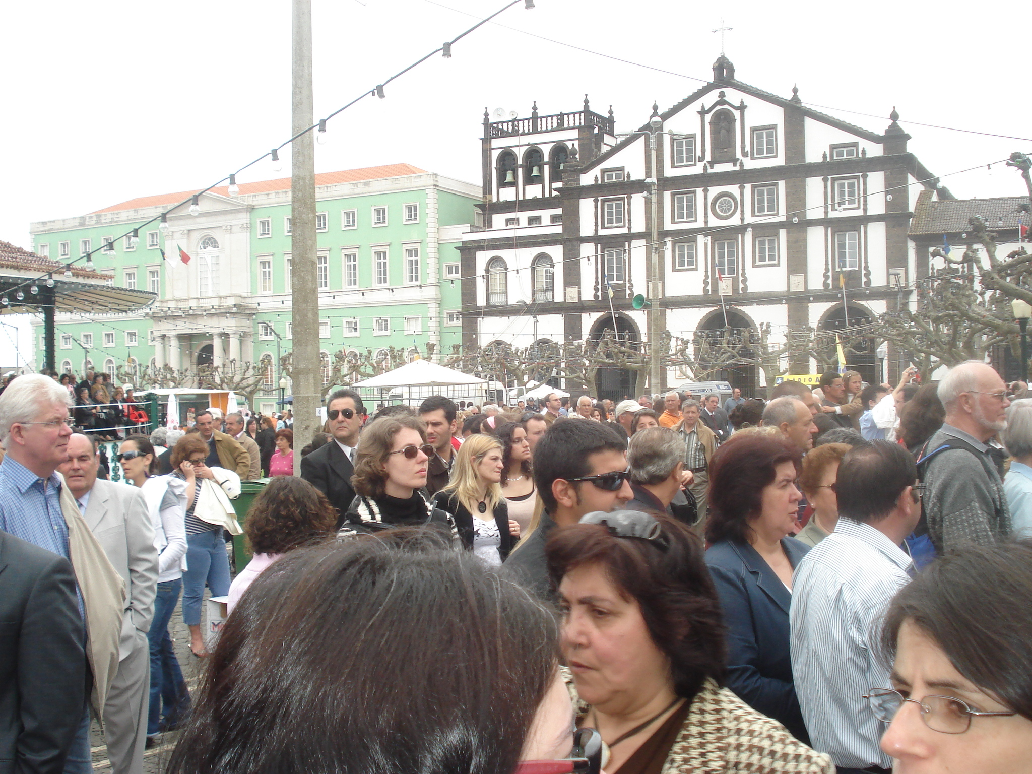 People congregate after the outdoor mass, on the Sunday of the festival of Senhora Santo Cristo, in the municipality of Ponta Delgada (Azores), Portugal